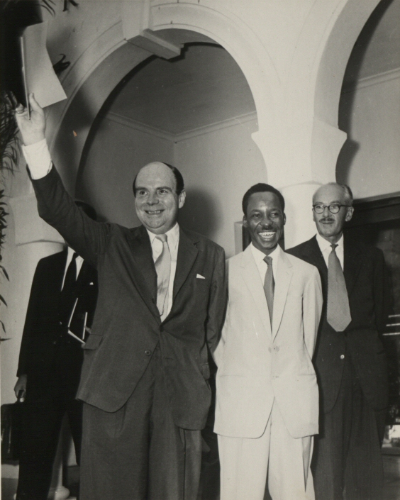 Iain Macleod and Julius Nyerere at the Constitution Conference, Tanganyika, March 1961.